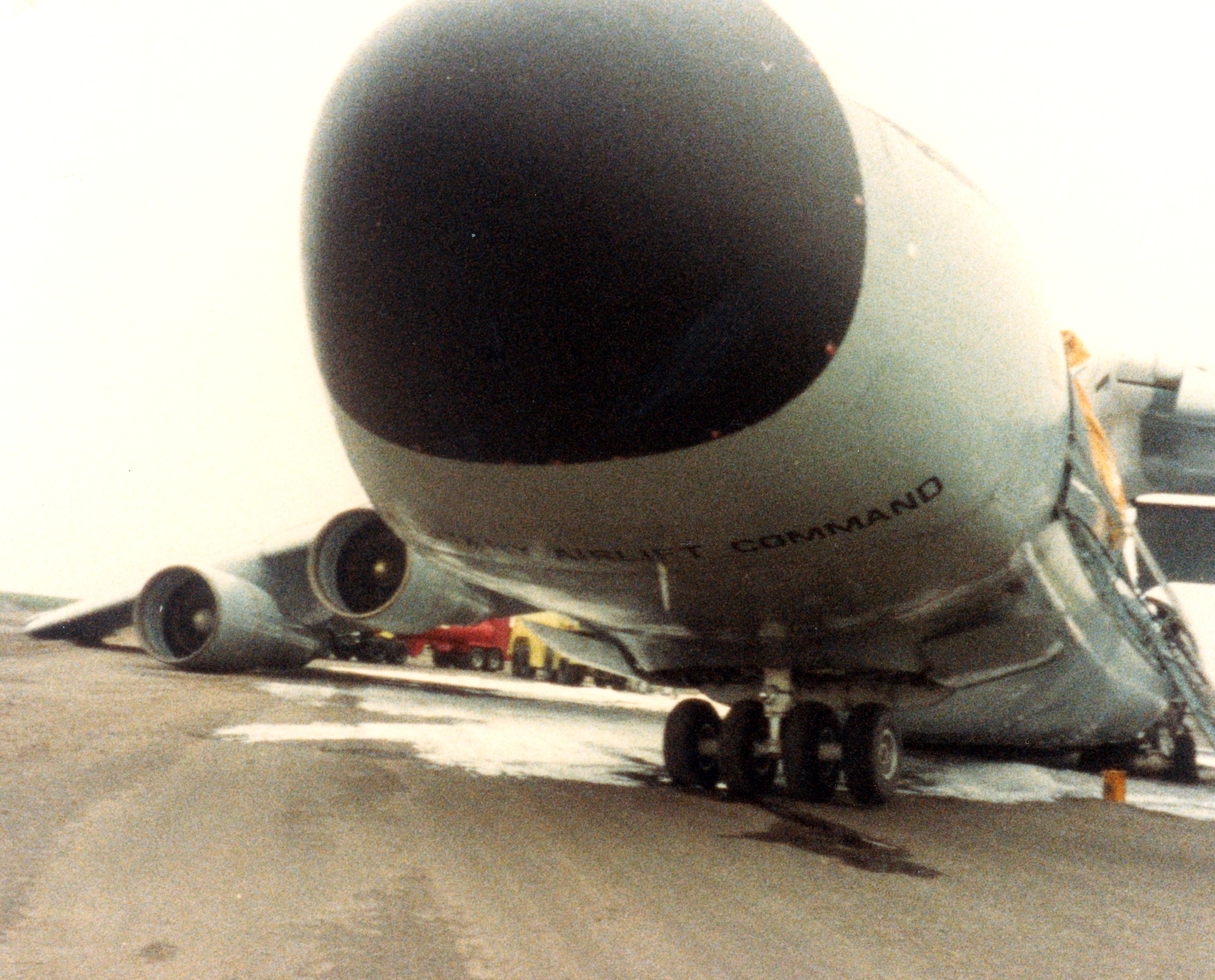 Author: Keith Boughner This picture was taken after C-5 Galaxy crash landing on Shemya, Alaska on 31 July 1983.